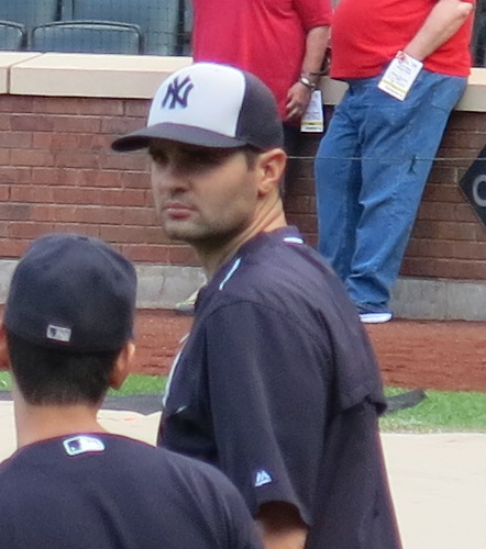 Richard Bleier of the New York Yankees, August 2, 2016.